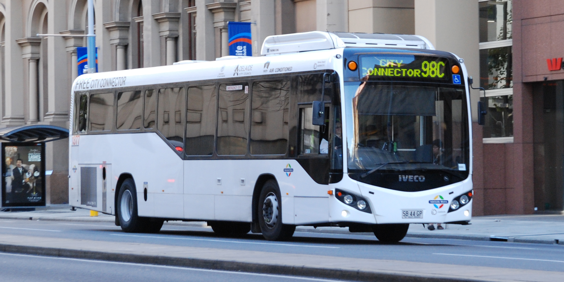 Torrens Transit Custom Coaches 'CB80' bodied Iveco Metro C260 with sign written for Free City Connector (Fleet no. 1377) of route 98C (City & North Adelaide clockwise loop) on Currie Street.